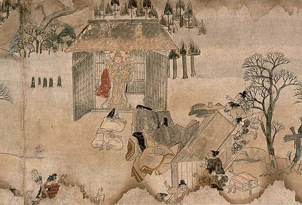 The Legendary Origins of Kokawadera (紙本著色粉河寺縁起, shihon chakushoku Kokawadera engi). Handscroll (Emakimono), 30.8 cm、x 1984.2 cm. Color on paper. Located at Kokawadera (粉河寺), Kinokawa, Wakayama.